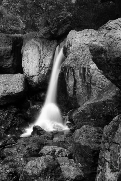 Lower Tada Waterfall and rocks — in the Eastern Ghats, southeast India. Located 110 km North of Tambaram.